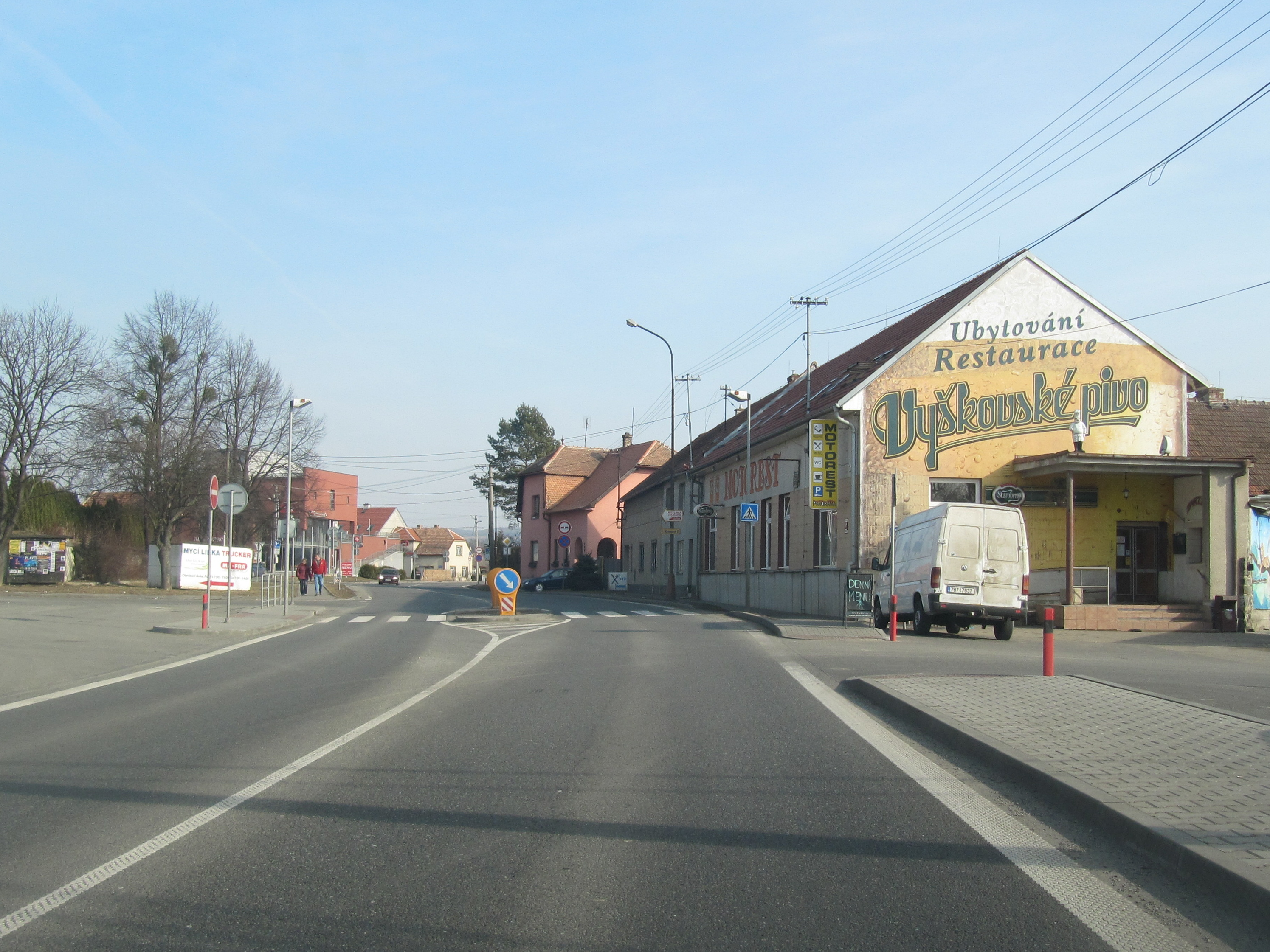 Bučovice in Vyškov District, part Vícemilice, Czech Republic. Road E50.